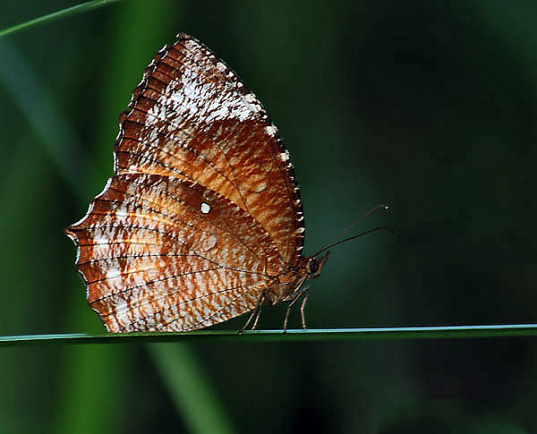 Northern Common Palmfly Elymnias hypermenstra undularis female, in Kolkata, West Bengal, India.